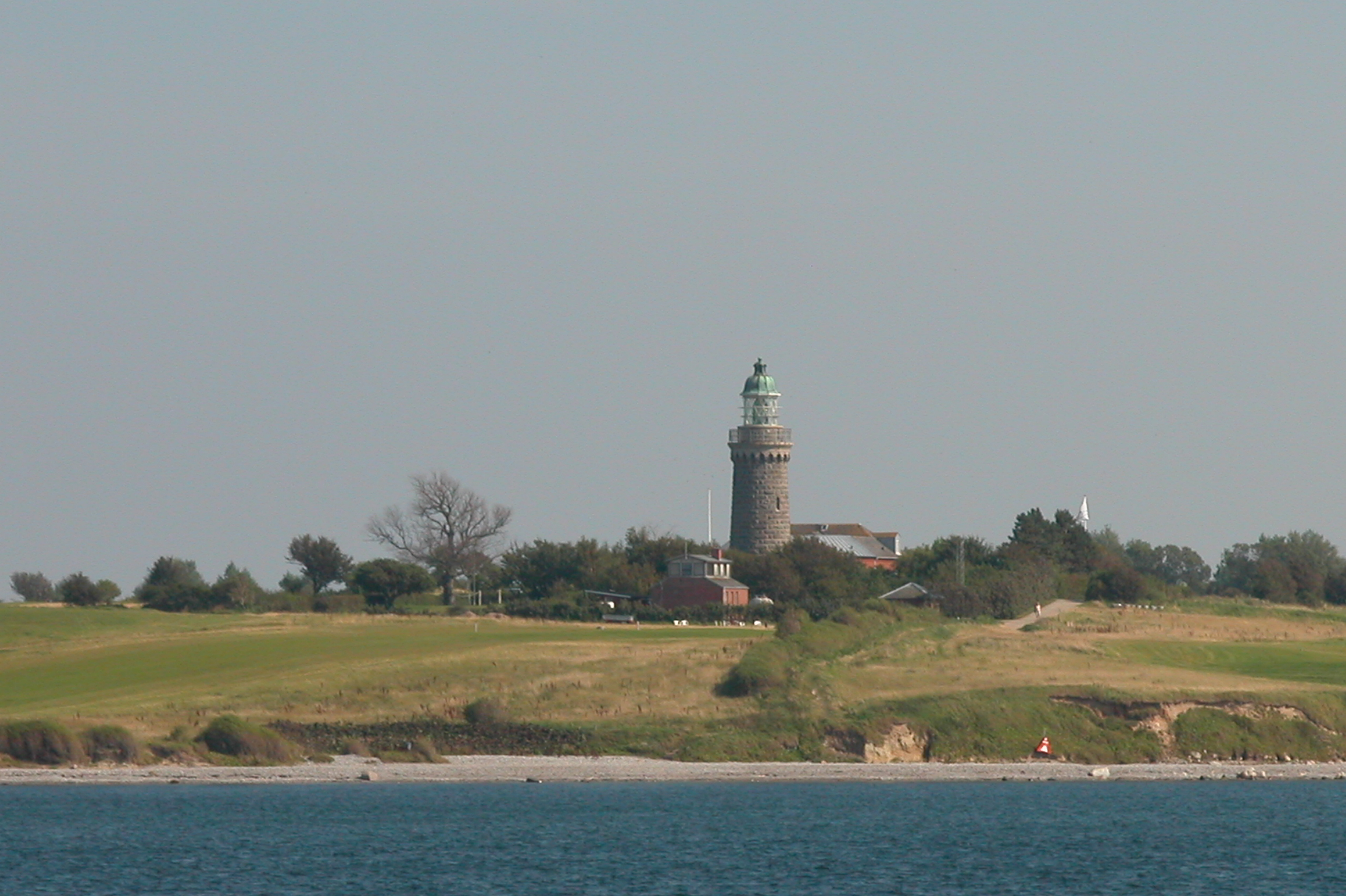 Skjoldnæs, Ærø, Denmark